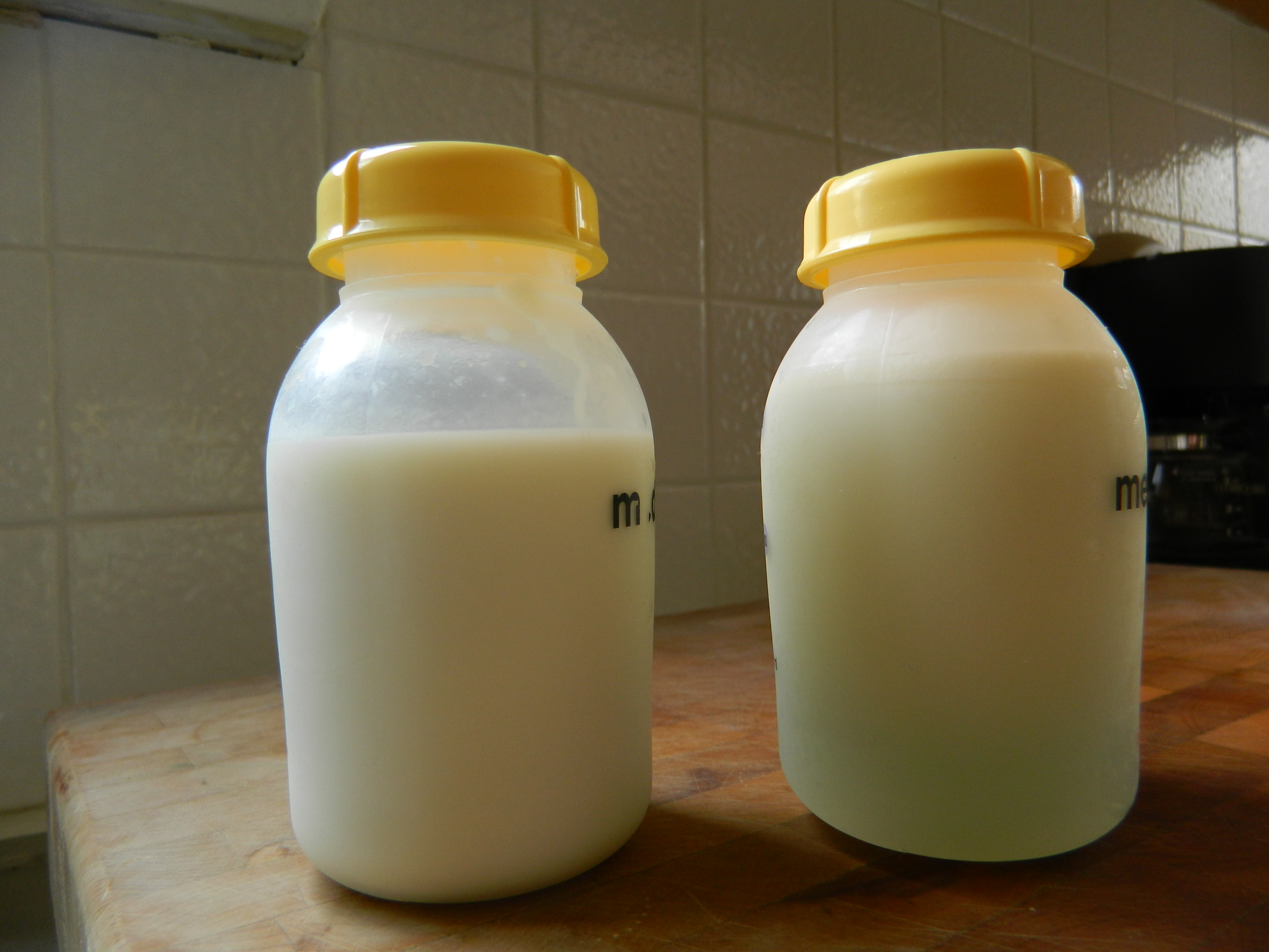 Side-by-side comparison of formula (left bottle) and pumped breastmilk (right bottle). Note that the breastmilk has separated into three layers: the fat layer on top, like old-fashioned creamline cow's milk, the central milk layer and a more watery blue-colored layer on the bottom. The formula is of uniform color and density after the same amount of time in the fridge.